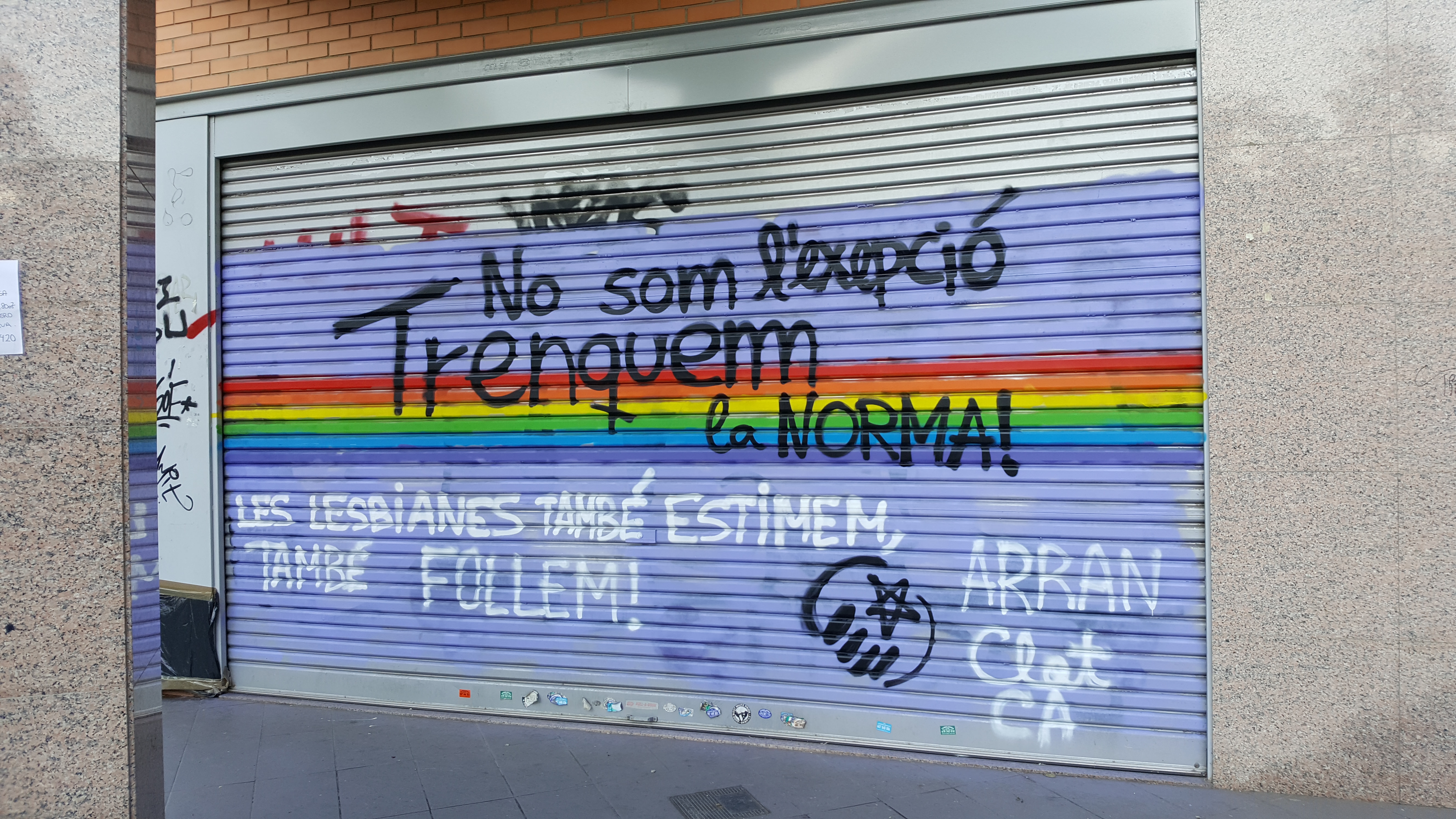 Mural signed by Arran appeared after Lesbian Awareness Day at Clot (Barcelona). Text: We are not the exception. Let's break the norm. Lesbians, we also love, we also fuck